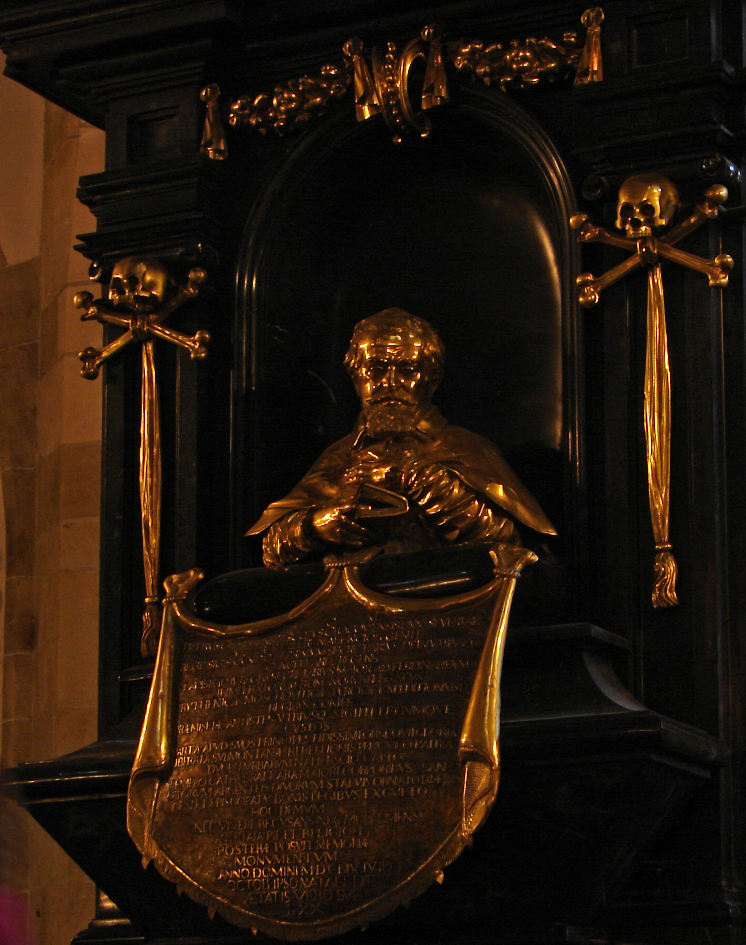 The is the bust of Cracow bishop Piotr Gembicki. I took this photo in Wawel Cathedral, Kraków, in March 2007.